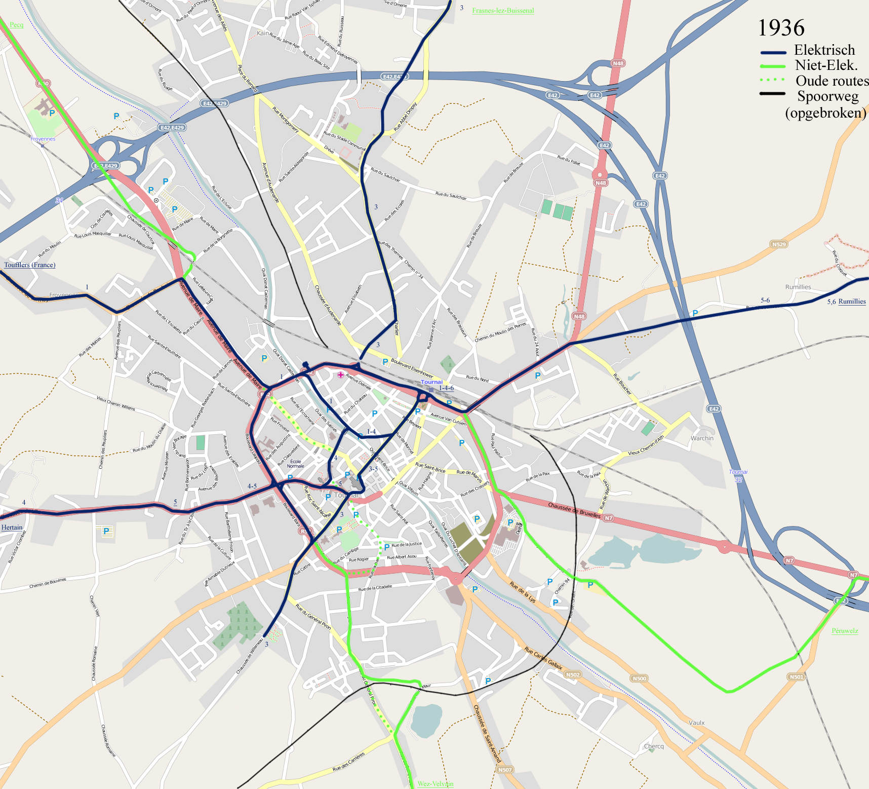 The SNCV network in Tournai in 1936. All blue lines are electric. The green ones are non-electric. The dotted lines are old routes (pre-1936). Black lines broken up railway lines. (Today)